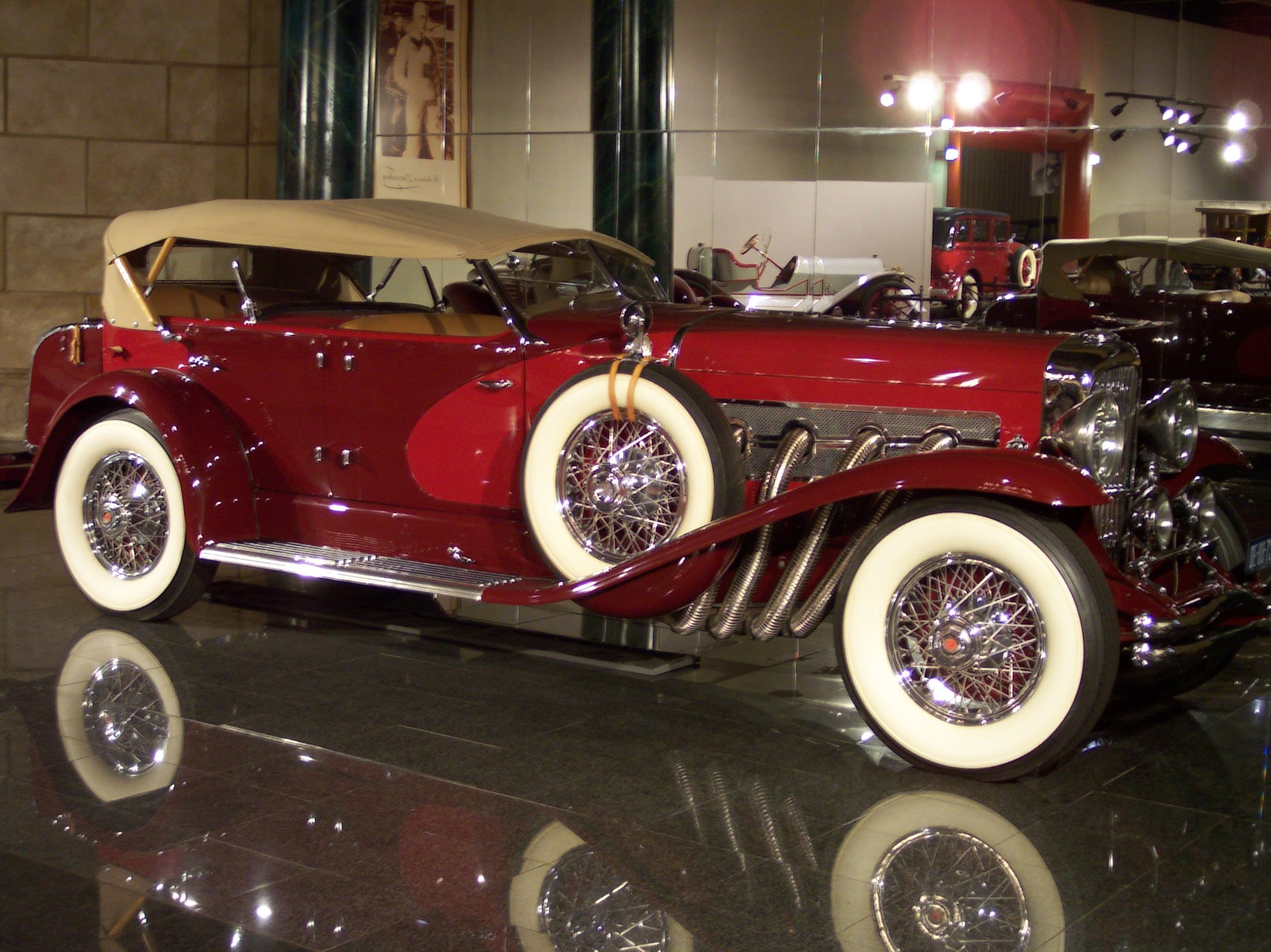 Duesenberg Convertible SJ La Grande Dual-Cowl Phaeton 1935